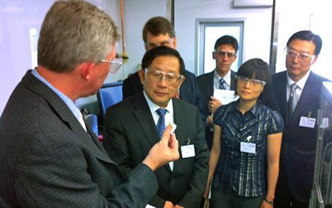 Wan Gang, the Minister of Science and Technology of PRC, visits Argonne National Laboratory.